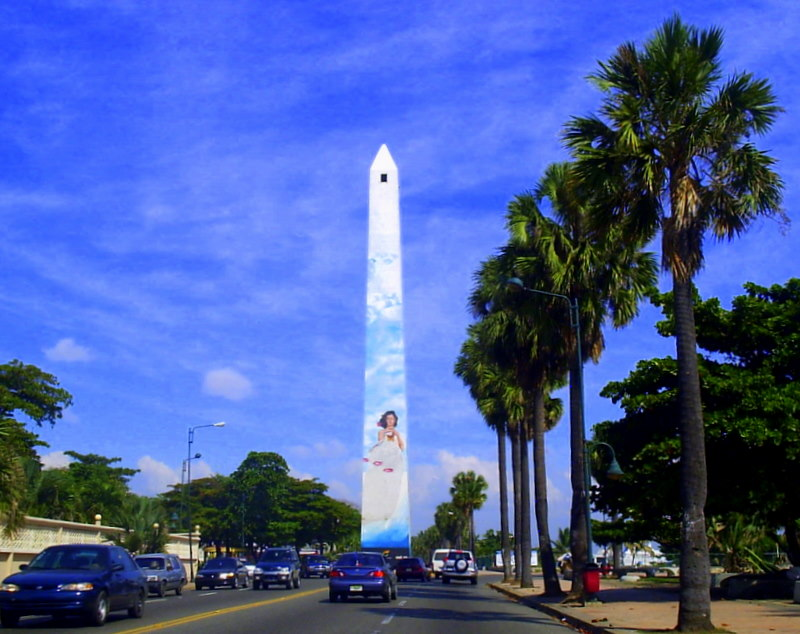 Obelisk in Santo Domingo, Dominican Republic.